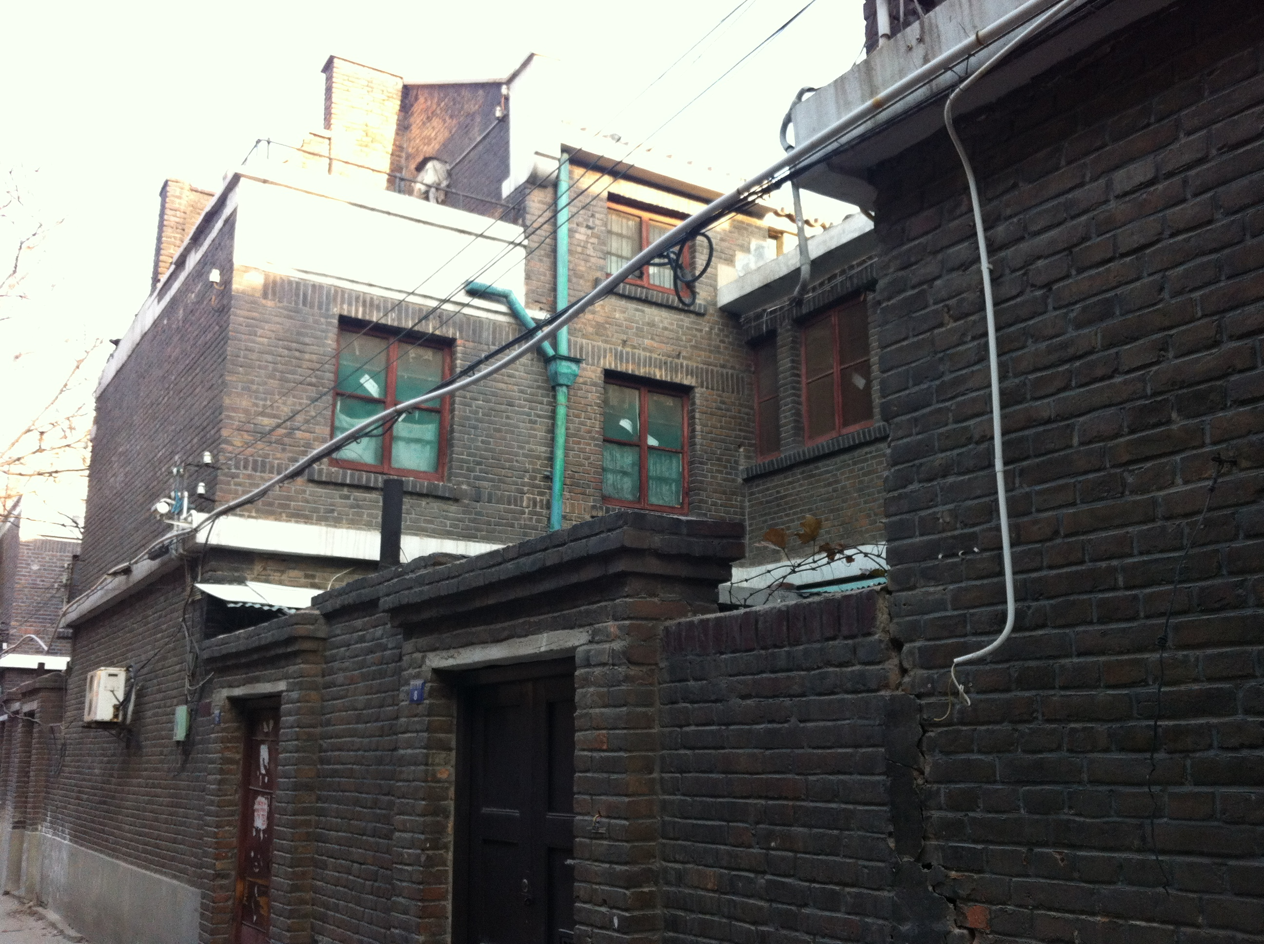 Changde Dao (west of Minyuan) No. 1-9